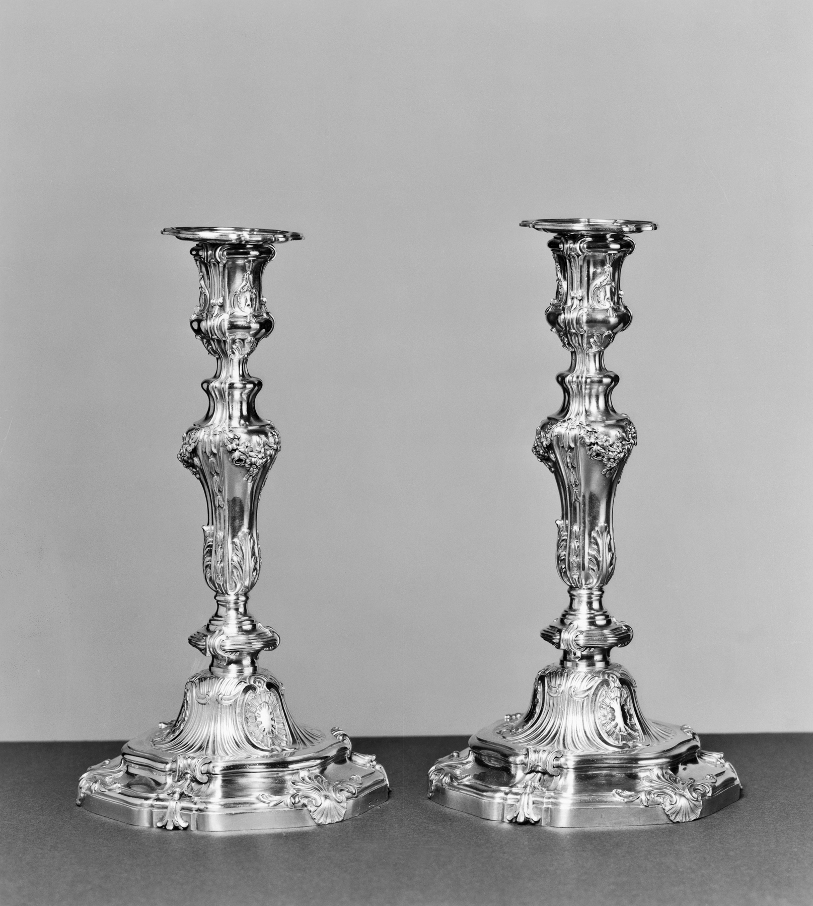 One of the most influential silversmiths of the mid 18th century, François Thomas Germain (1726-1783) is thought to have introduced this popular model of candlestick in Paris in 1757-1758. Germain also sponsored Lenhendrick's membership as a master goldsmith in the corporation (goldsmith's guild) in 1747.